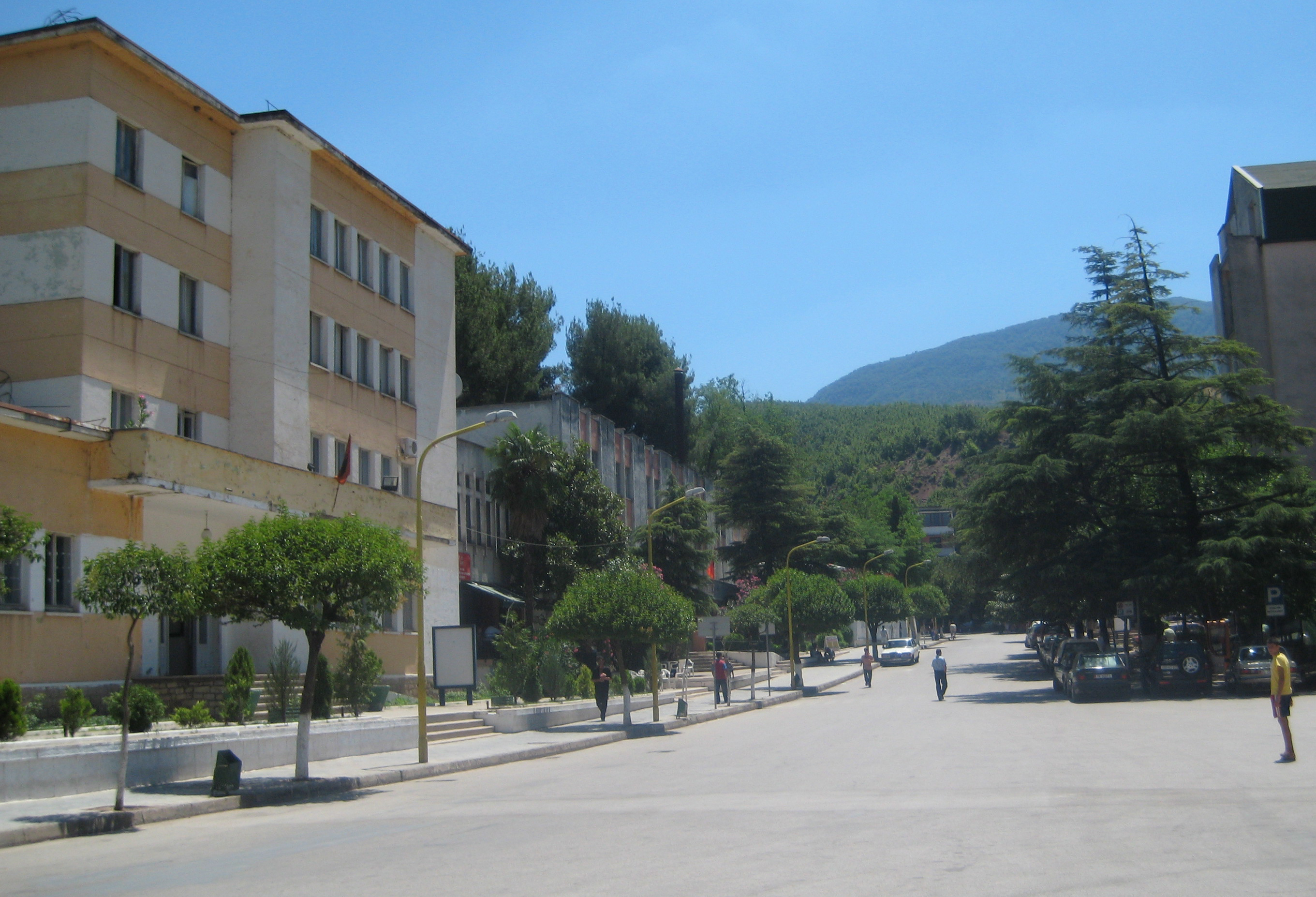 City center of Librazhd, Albania